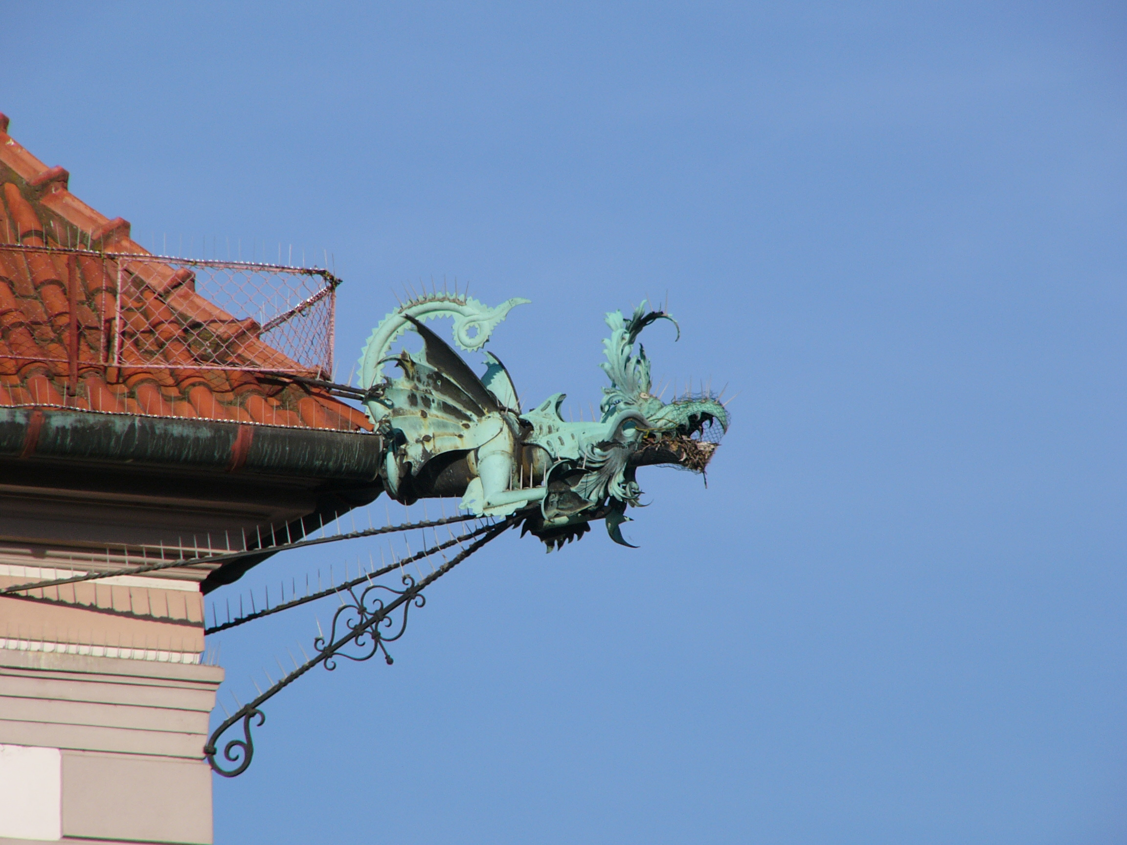 Eaves at town hall in Olomouc (Czech Republic).